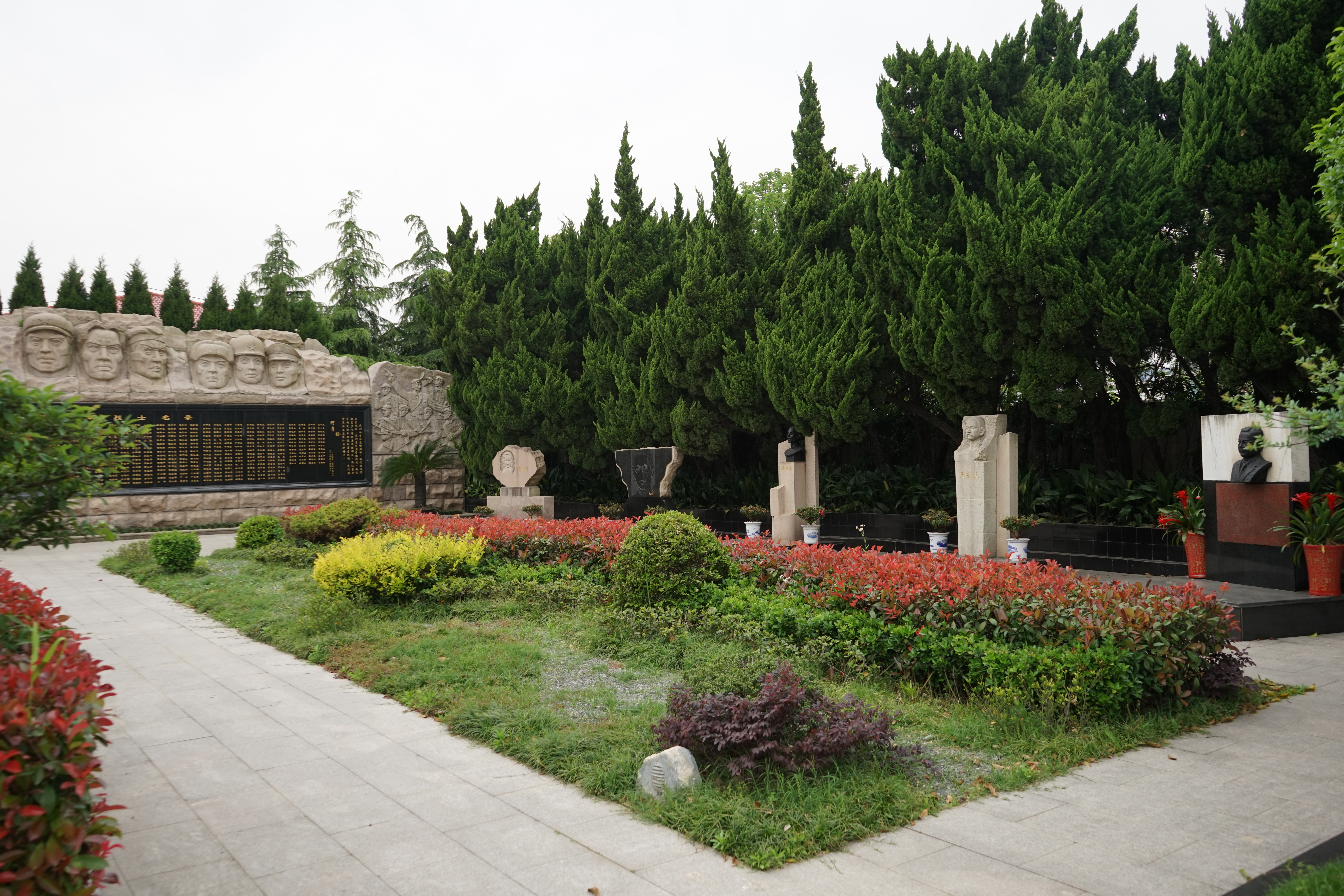 sculptures of five Chuansha martyrs, a memorial wall with the names of Pudong martyrs